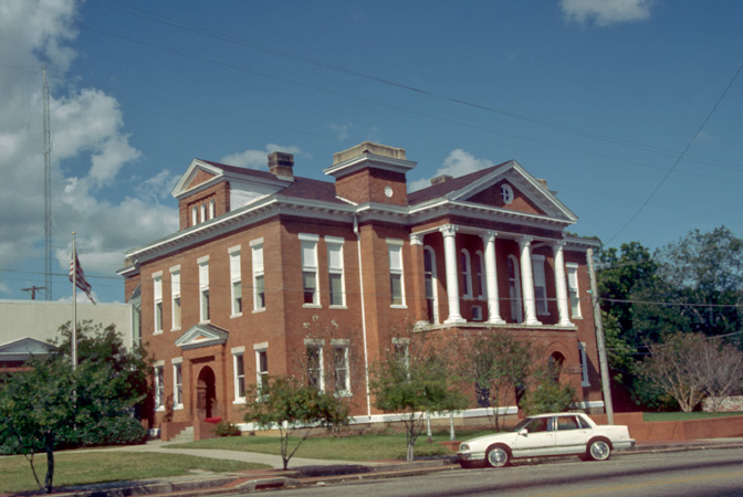 Jefferson Davis County Courthouse, located at the intersection of N. Columbia Avenue and Third Street in Prentiss, Mississippi, United States. Built in 1907, it is listed on the National Register of Historic Places.